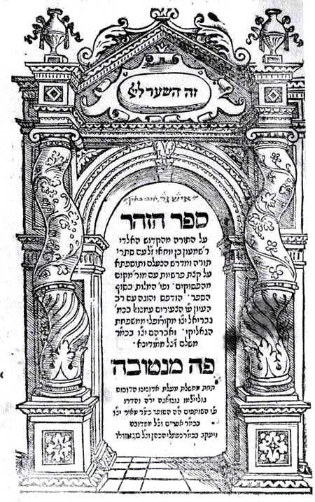 Title page of first edition of the Zohar, Mantua, 1558. Library of Congress.